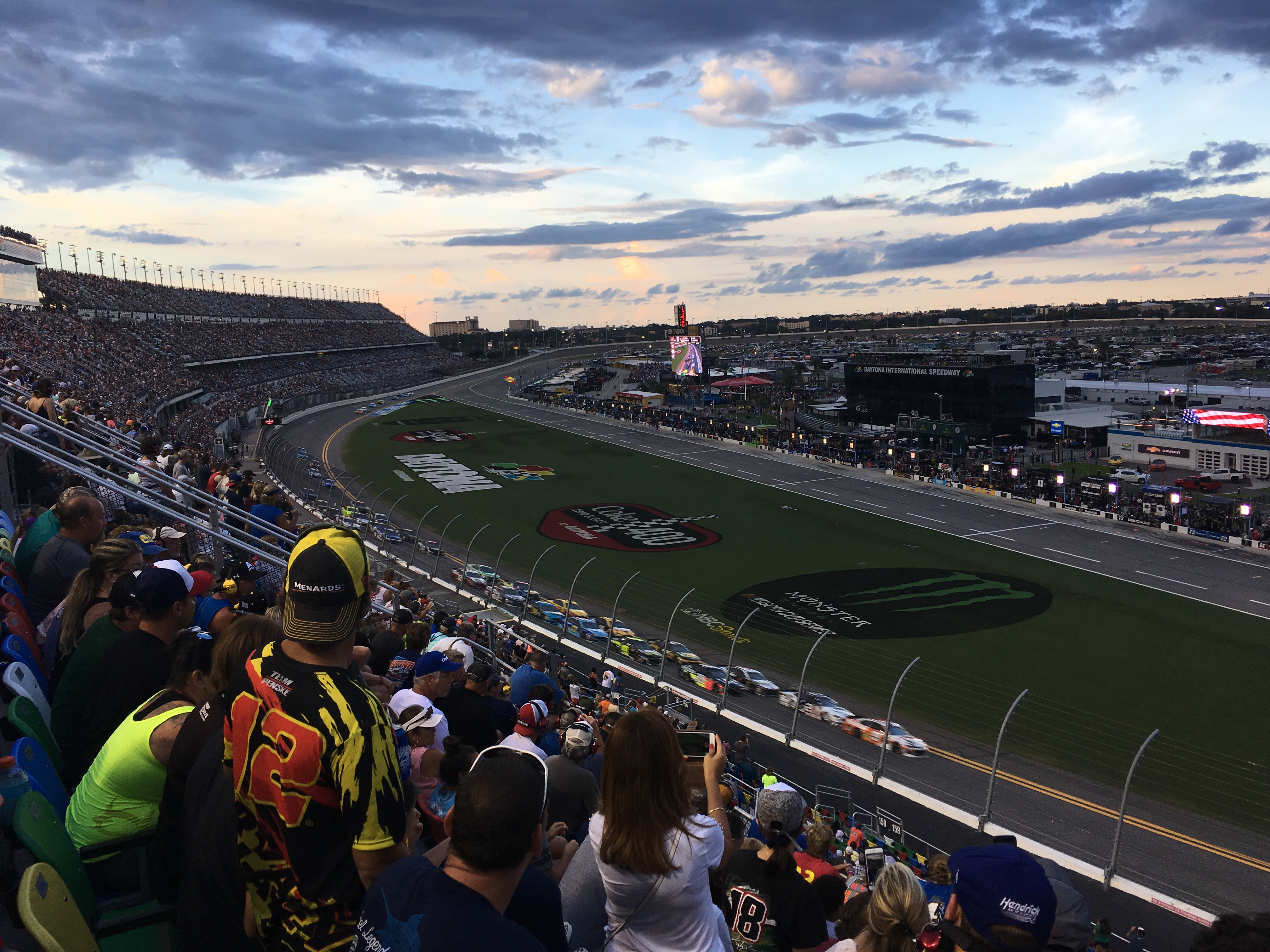 The beginning of the 2018 Coke Zero Sugar 400 at Daytona International Speedway viewed from the frontstretch, with Chase Elliott (#9) leading.